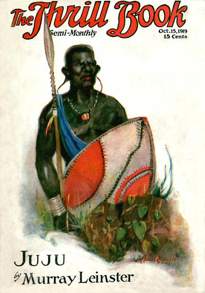 Cover of the 15 October 1919 issue of The Thrill Book. The cover art is by James Reynolds.